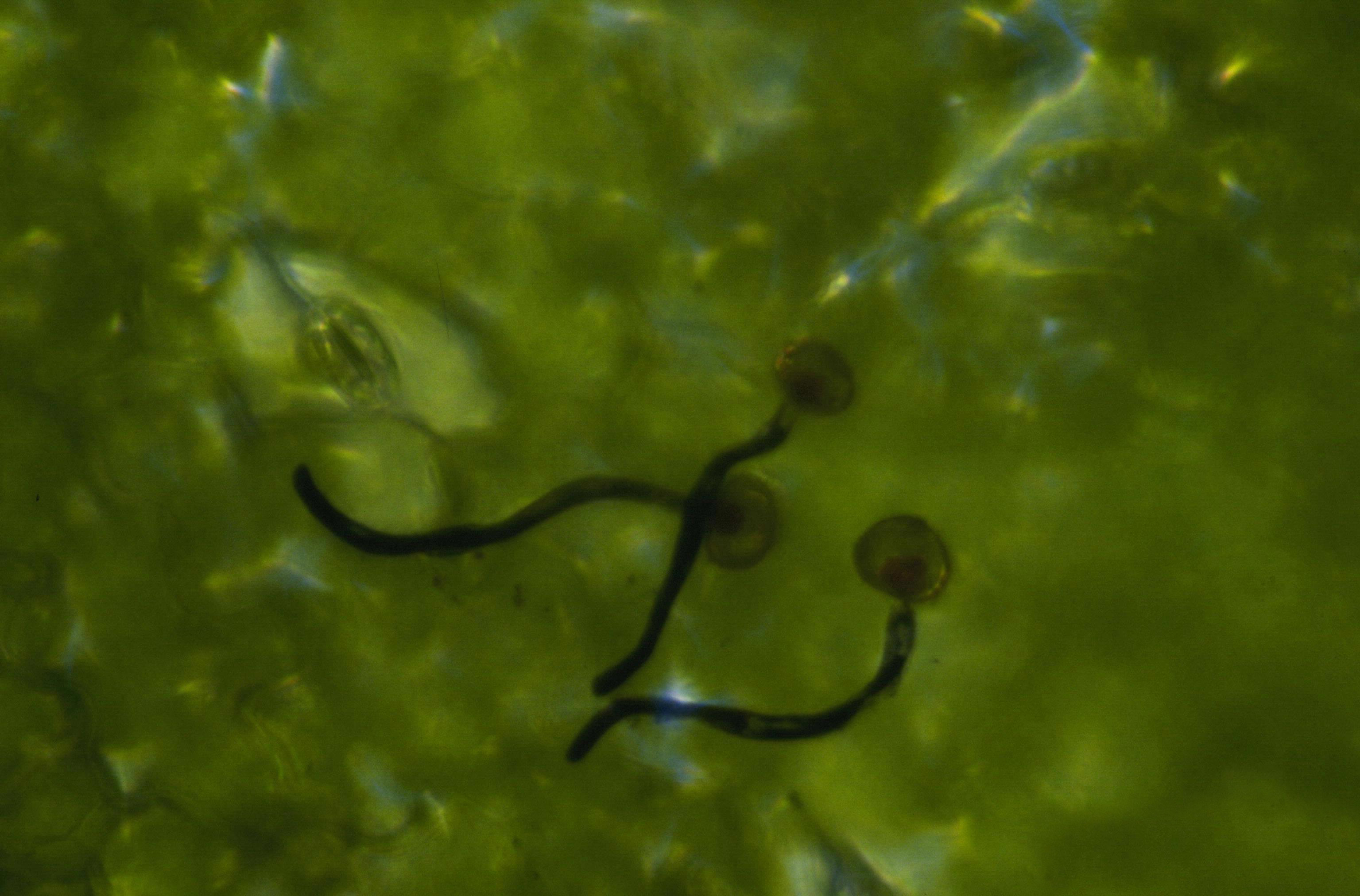 Microphotograph of the germinating tubes of rust spores (Uromyces appendiculatus) on a dry bean leaf.